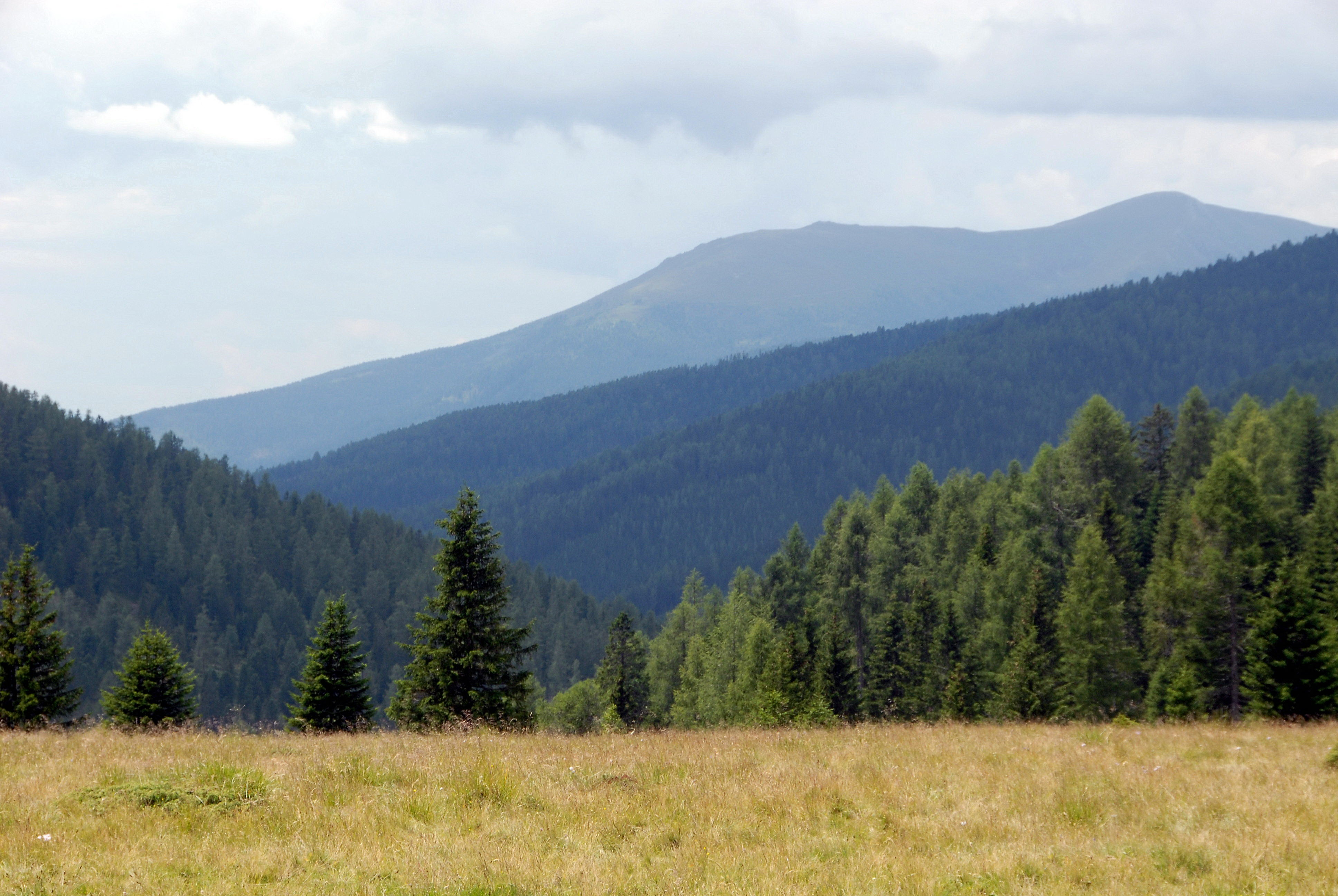 View from Hochrindl in western direction towards the Falkert-mountain (right side in the background), Hochrindl situated in the community Albeck, district Feldkirchen, Carinthia, Austria